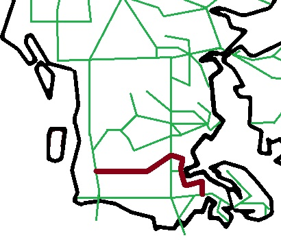 Map of railways in Southern Jutland in Denmark in 1924 with the private railway Aabenraa Amts Jernbaner in brown.